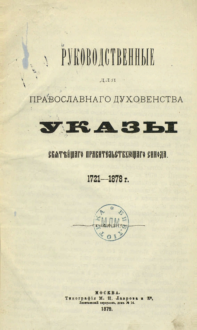 Decrees of the Most Holy Governing Synod of 1721-1878